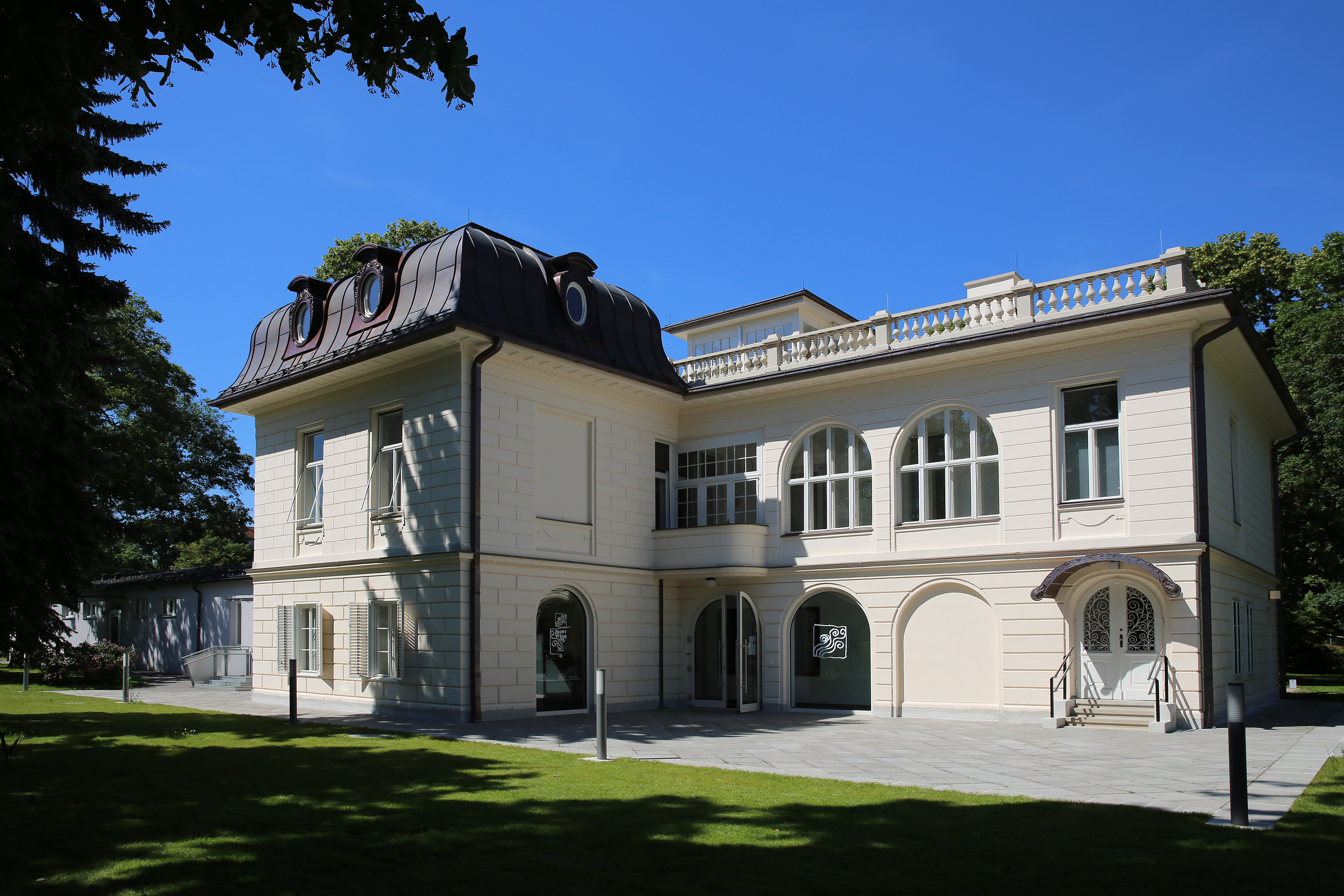 South face of the so called Klimt Villa, Gustav Klimt's last residence in Vienna, Austria, from 1911 to 1918.